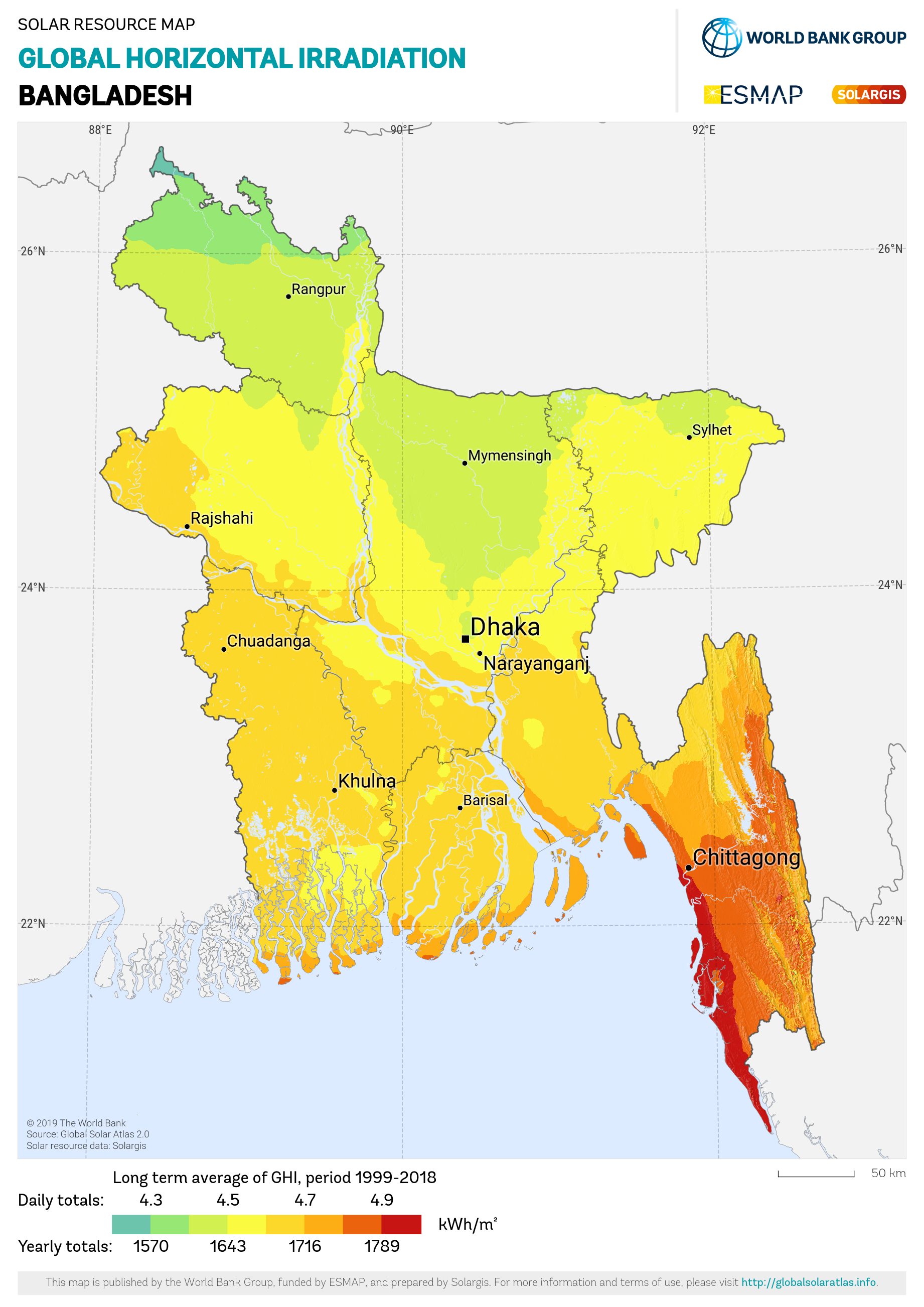 Global Horizontal Irradiation of Bangladesh